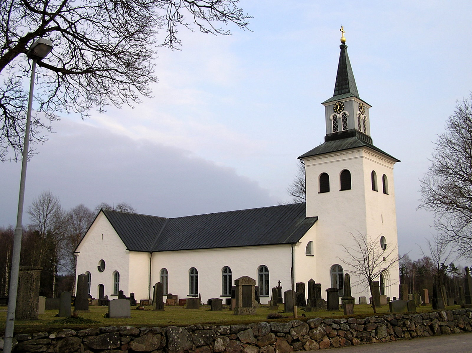 The church in Loshult, Sweden.